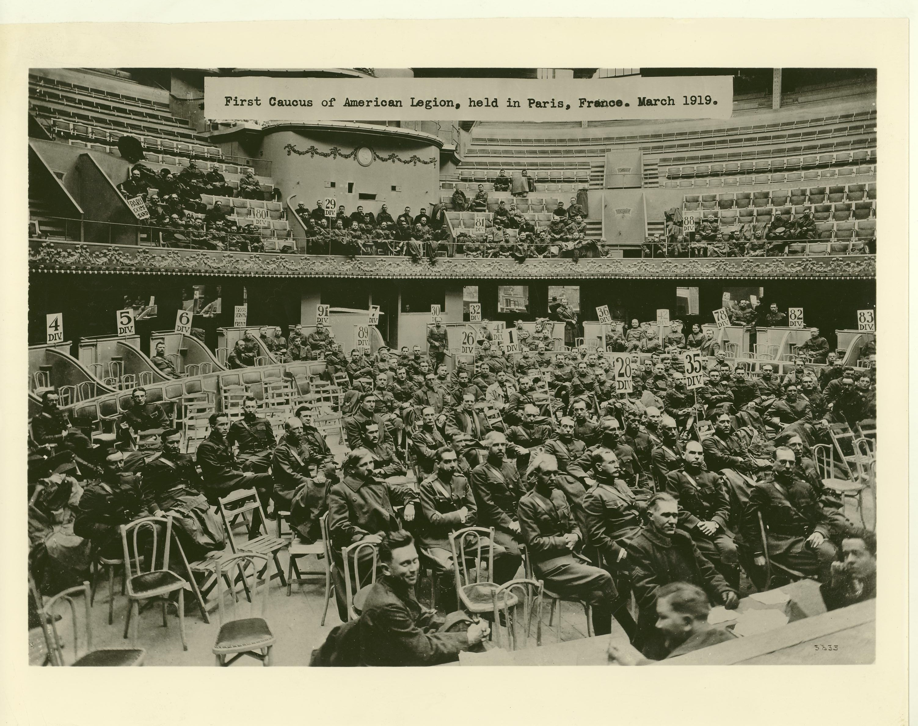 Local Accession Number: 346-A Description: American Legion Paris Caucus, held at Cirque Métropole [1] (March 15-17, 1919) in Paris, France. Photographer: Unknown Source: Unknown Size: 8x10 Medium: Print, Black and White Date: 1919